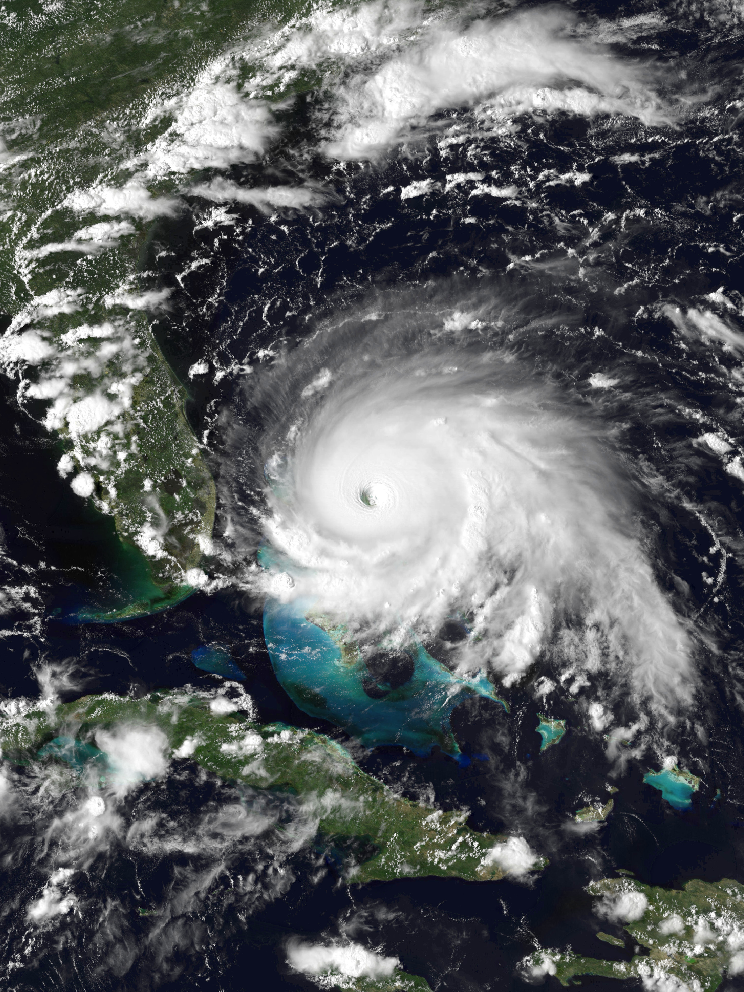 Hurricane Dorian on September 1, 2019